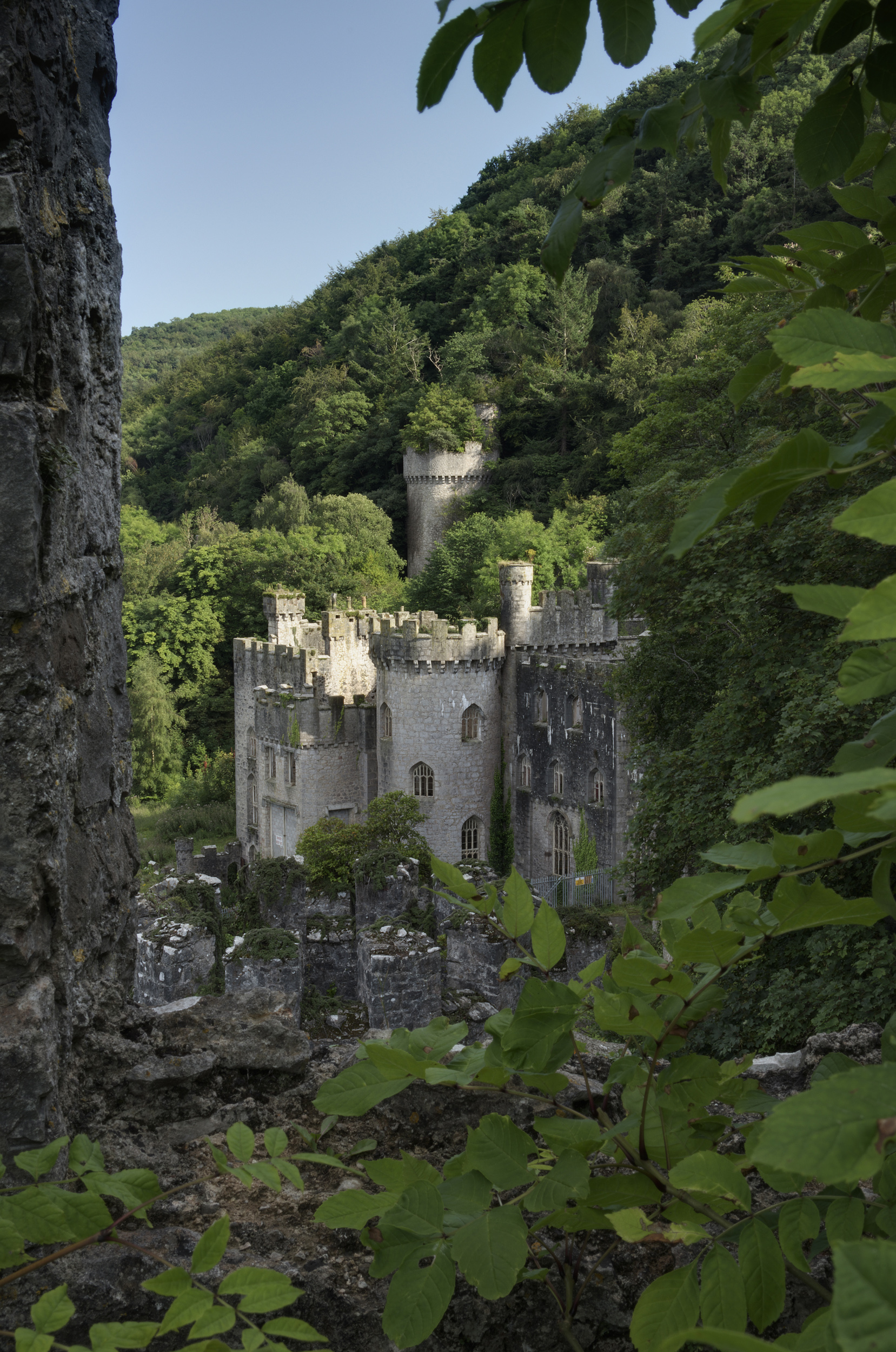 A view of the foliage covered towers of Gwrych Castle, Abergele, North Wales. Wikidata has entry Q17736566 with data related to this building.